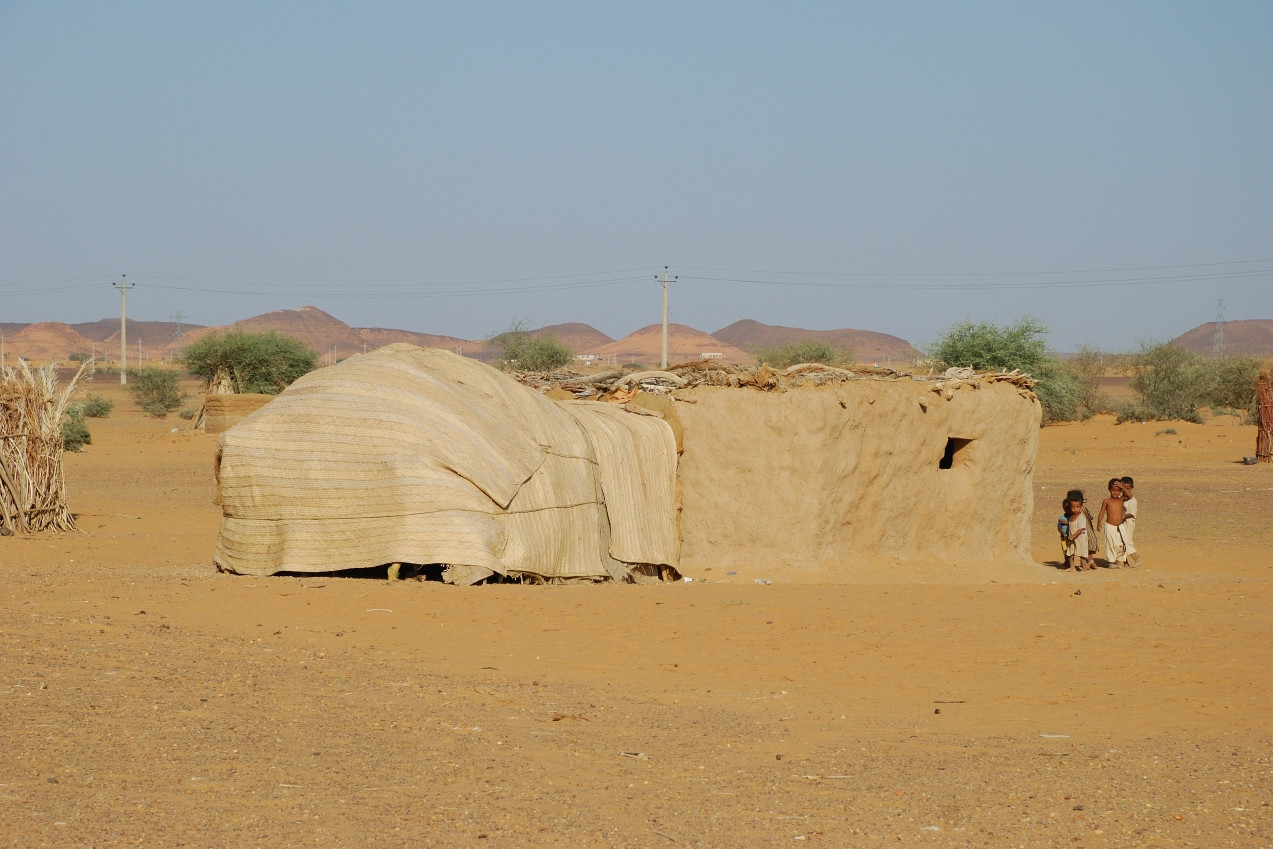 Beja house, Sudan, near Meroe